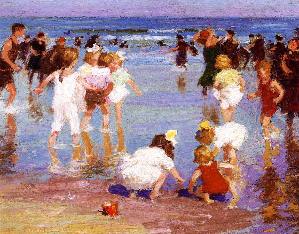 "Happy Days," oil on panel, by artist Edward Henry Potthast. Courtesy of the Taubman Museum of Art.